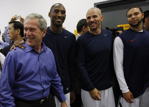 President George W. Bush spends a moment with U.S. Olympic Men's Basketball Team members, from left, Kobe Bryant, Jason Kidd and Deron Williams Sunday, Aug. 10, 2008, during a visit with the team prior to their game against China at the 2008 Summer Olympic Games in Beijing.